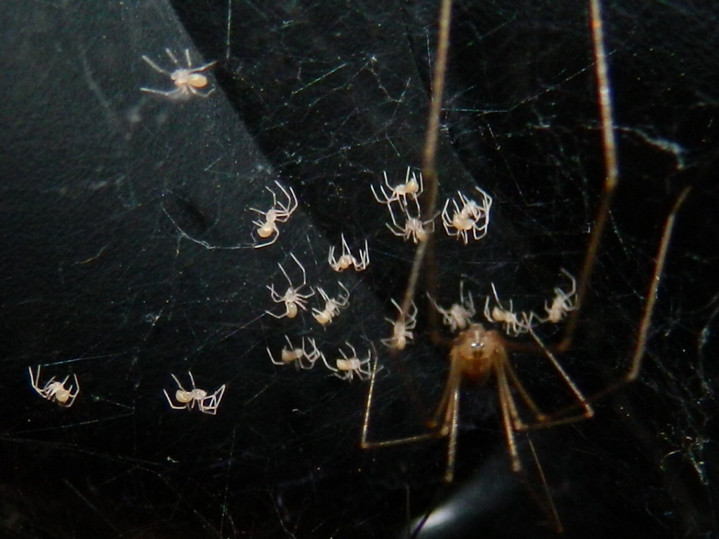 A cellar spider protecting her spiderlings at the local gymnasium.